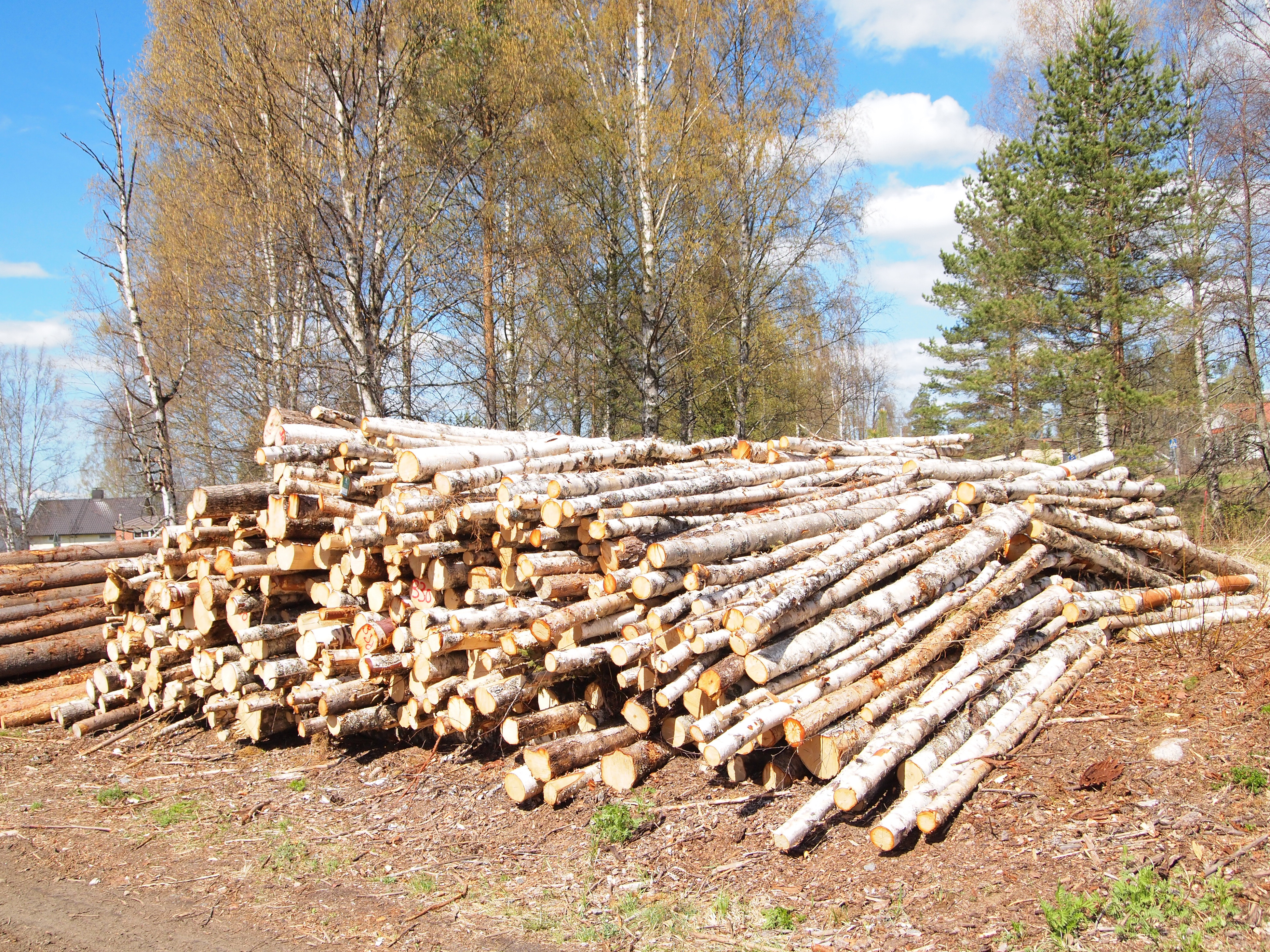 Birch logs in Petäjävesi near the train tracks.